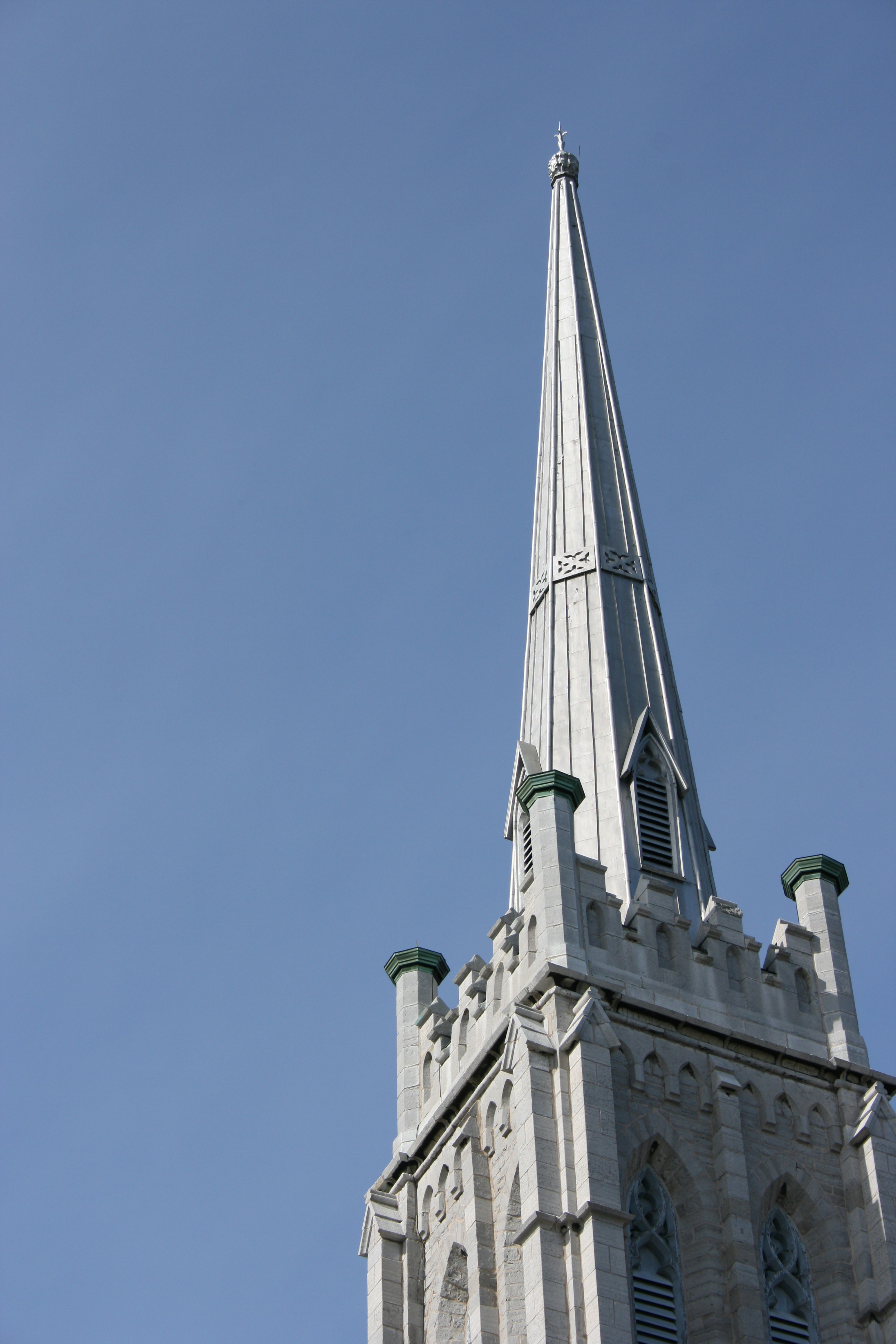 Sydenham Street United Church: February 14, 2009